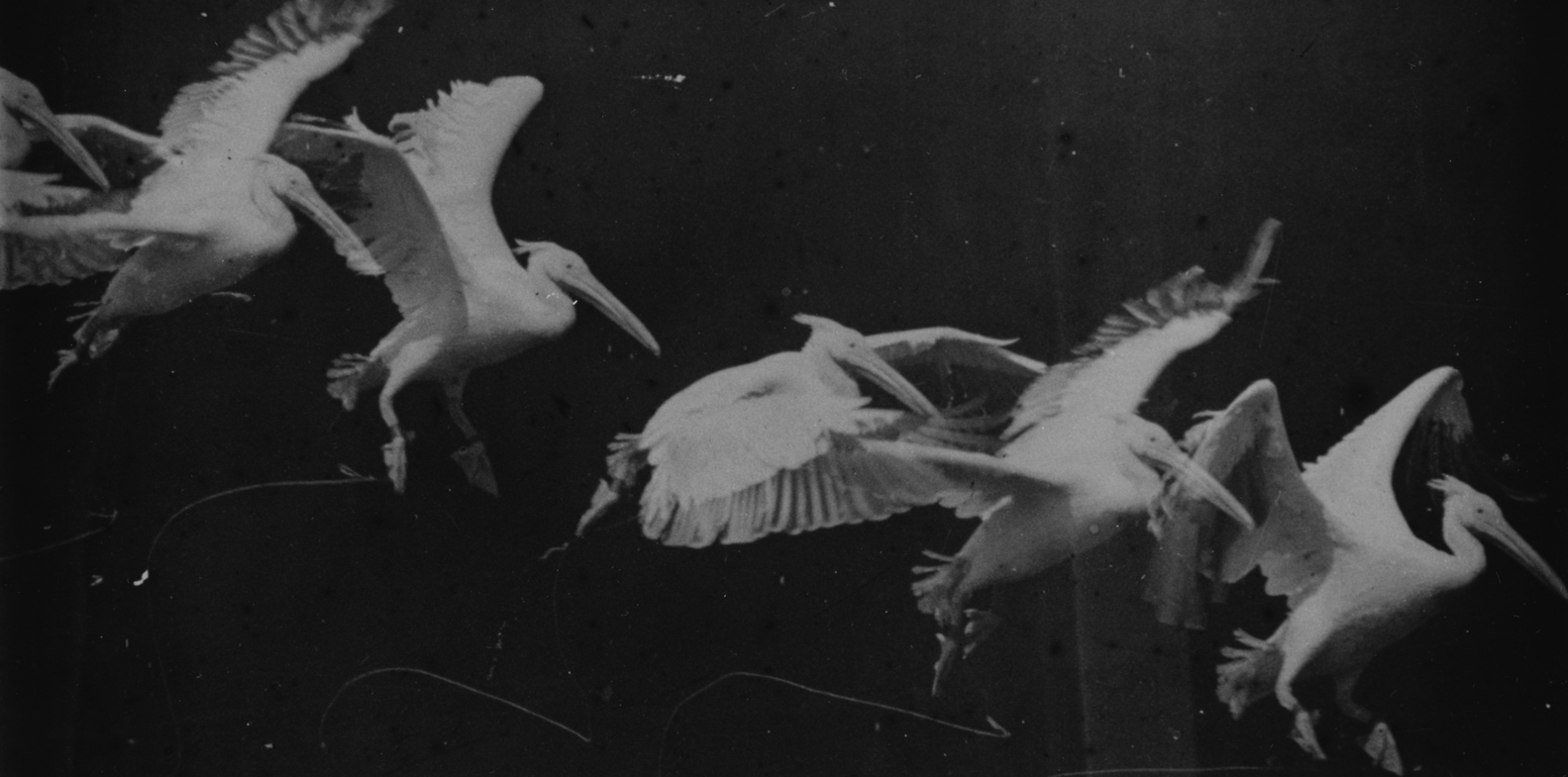 A photo of flying pelican taken by Étienne-Jules Marey